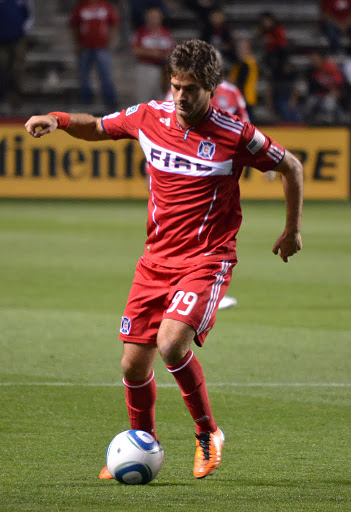 Diego Chaves dribbling a soccer ball.